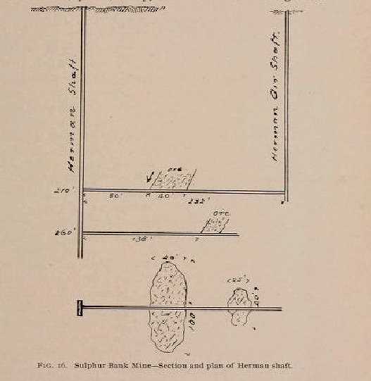 Diagram of the Herman mine shaft at Sulphur Bank Mine in 1902.